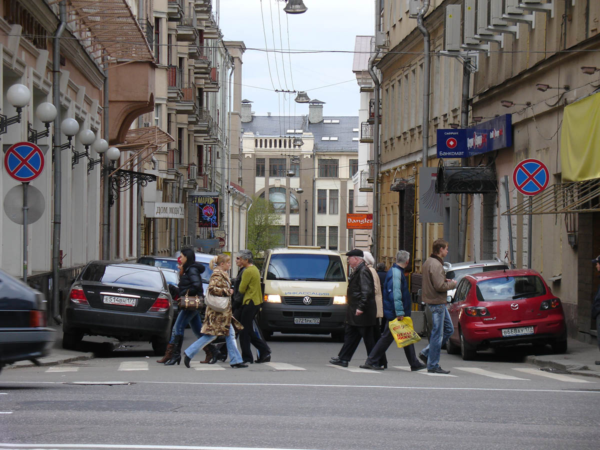 Kozitsky Lane, Moscow, view from Tverskaya Street into Dmitrovka Street.